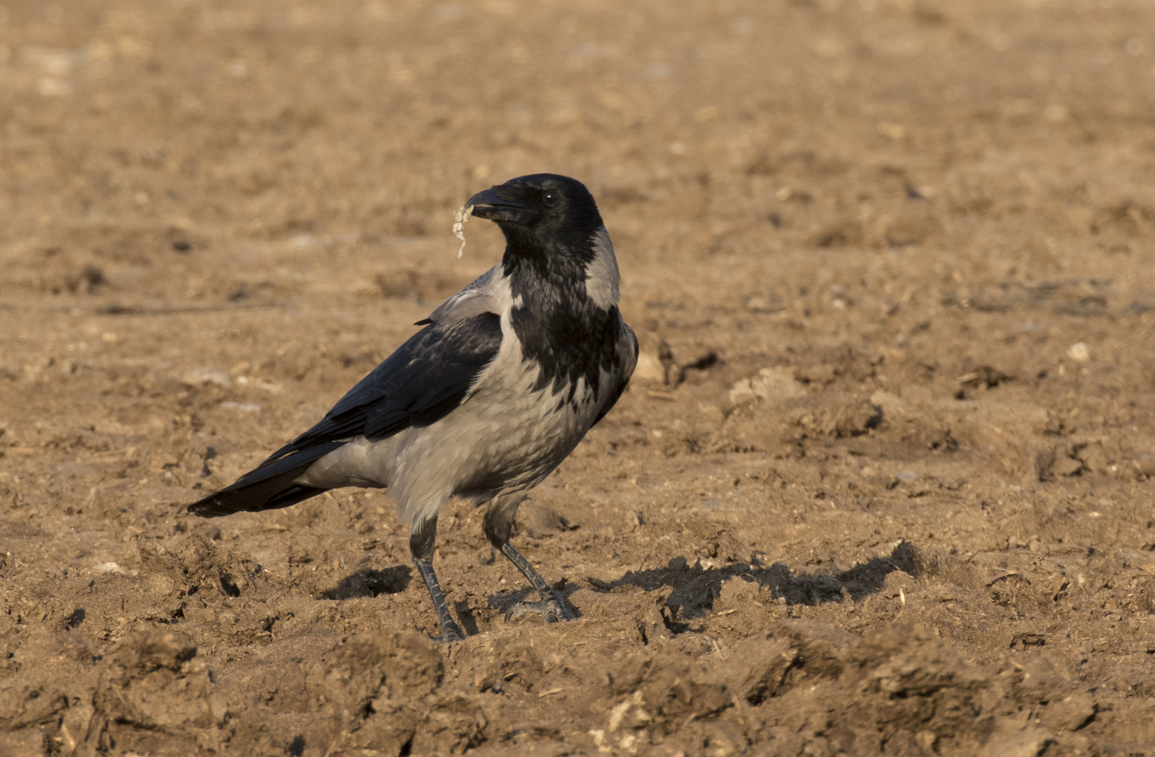 Hooded crow (Corvus cornix). Balcalı, Sarıçam - Adana, Turkey.